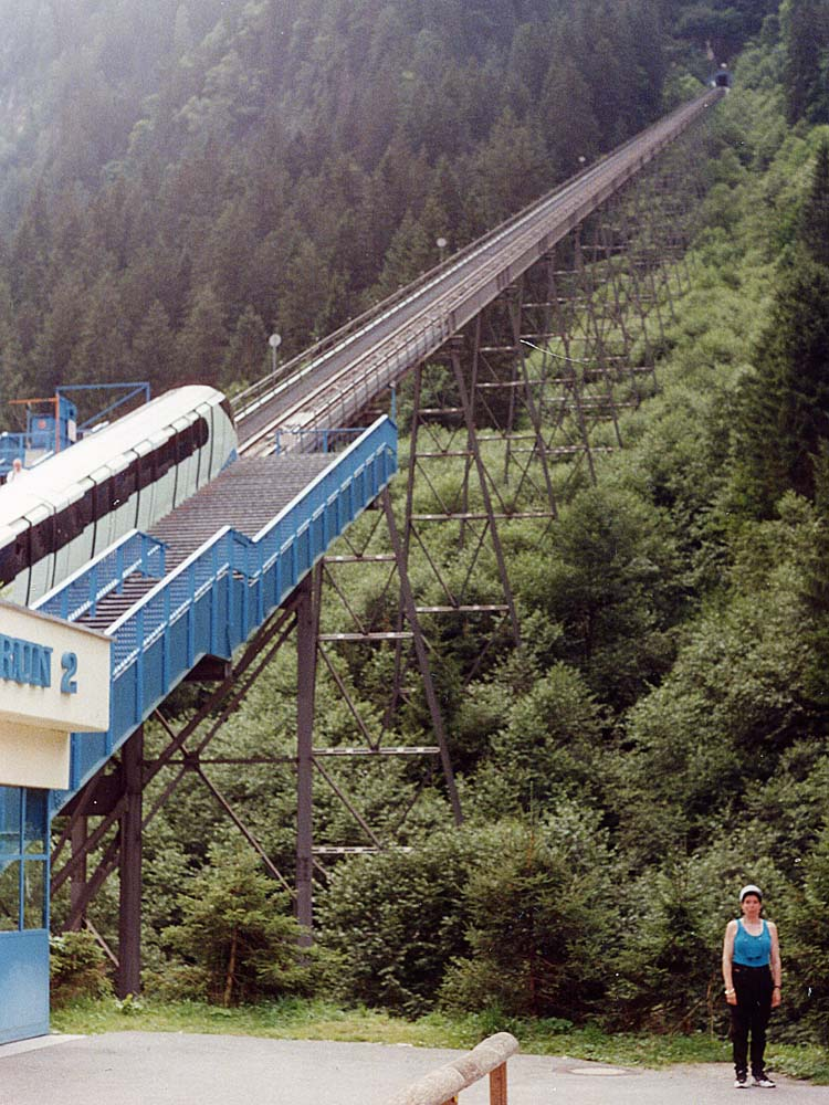 The Kaprun train photographed by Adrian Pingstone a few weeks before the disaster. Released to the public domain.